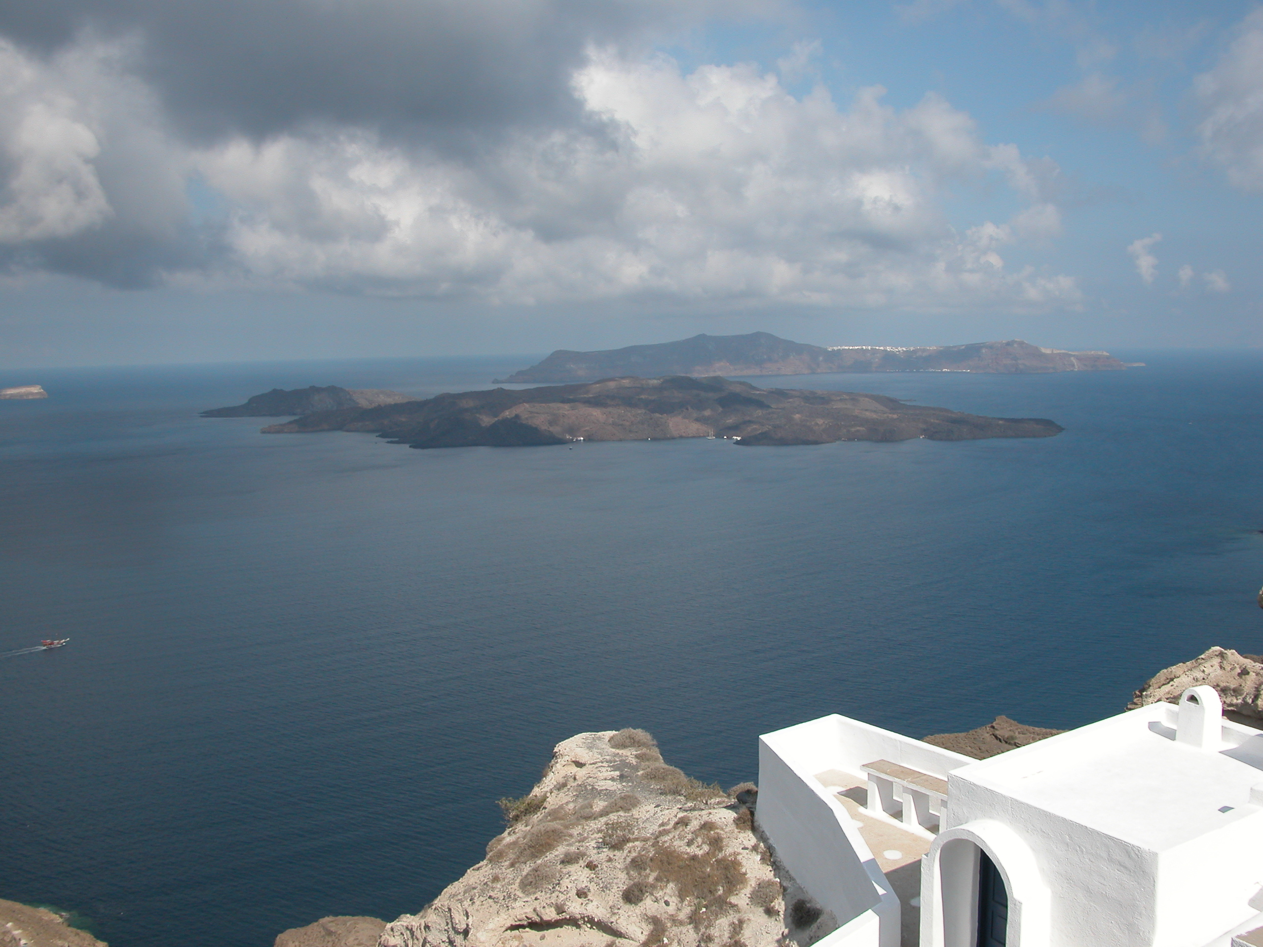 Nea Kameni (front), Palea Kameni(front-left), part of Aspronisi (far left) and Therasia (front, back) as seen from Thera, Santorini.